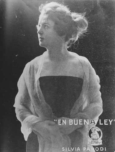 Silvia Parodi- actriz